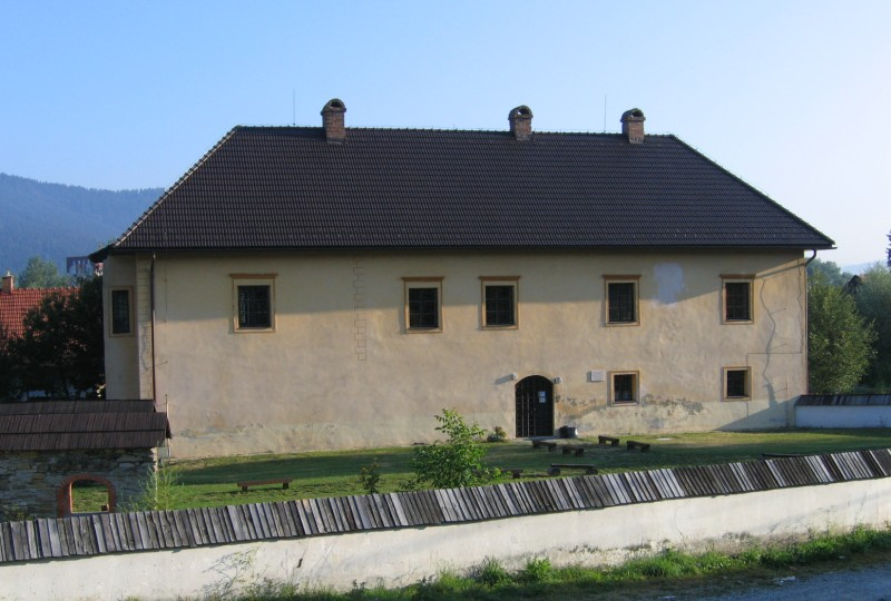 kaštieľ v Radoli This medium shows the protected monument with the number 504-2981/0 in the Slovak Republic.